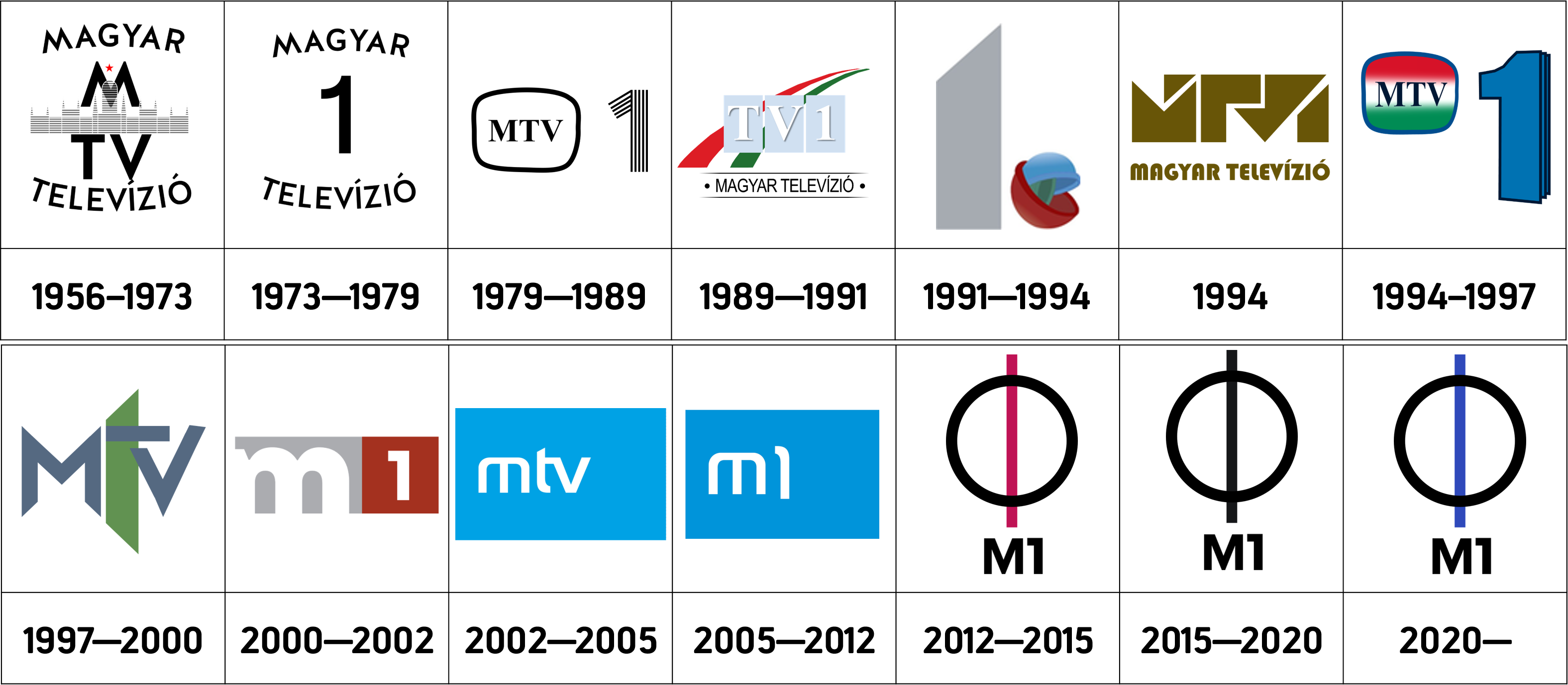 The logos used by M1, Hungarian public broadcaster since 1956.